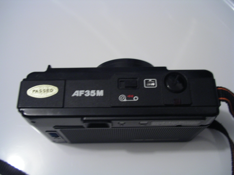 Canon AF35M compact camera